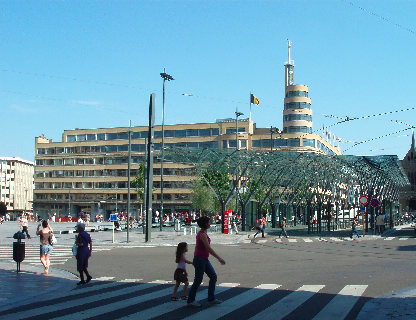 Flagey Place - Brussels (Belgium)